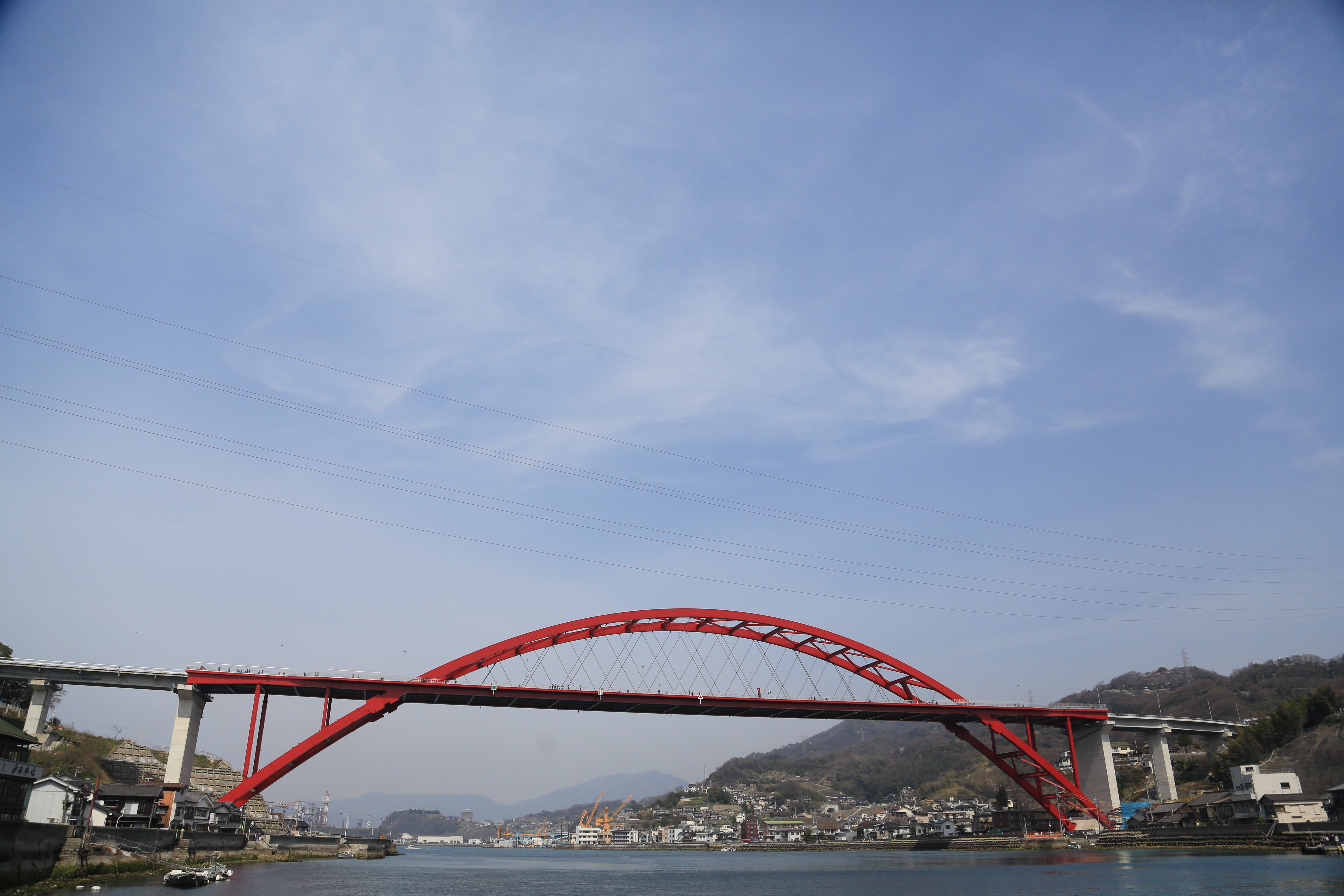 NorioNAKAYAMA